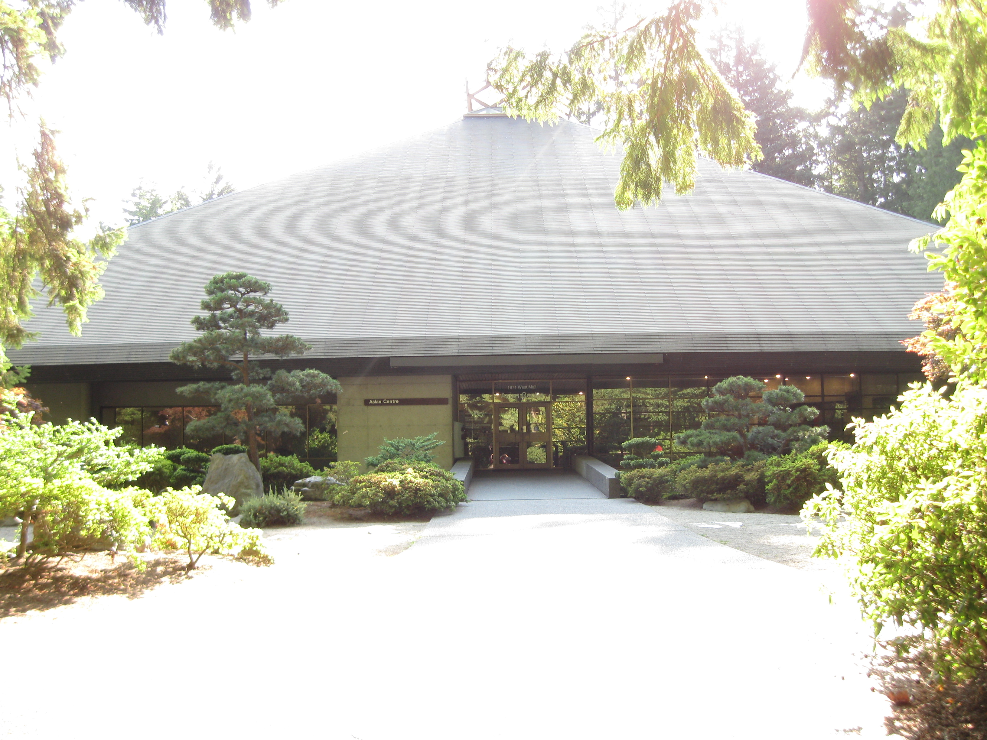 The UBC Asian Centre Building at 1871 West Mall road in Vancouver, BC, Canada. This building houses the UBC Department of Asian Studies and the volumnious Asian Library which occupies three floors for its collection of books and manuscripts. UBC was originally awarded the roof and structural framework from the Sanyo Pavillion which had been built for the 1970 World Exposition in Osaka, Japan, to serve as the foundation for the future Asian Centre--ie. this building. Construction began in January 1974 and after 7 years of fund-raising, it was finally completed and opened to students and the public in 1981.